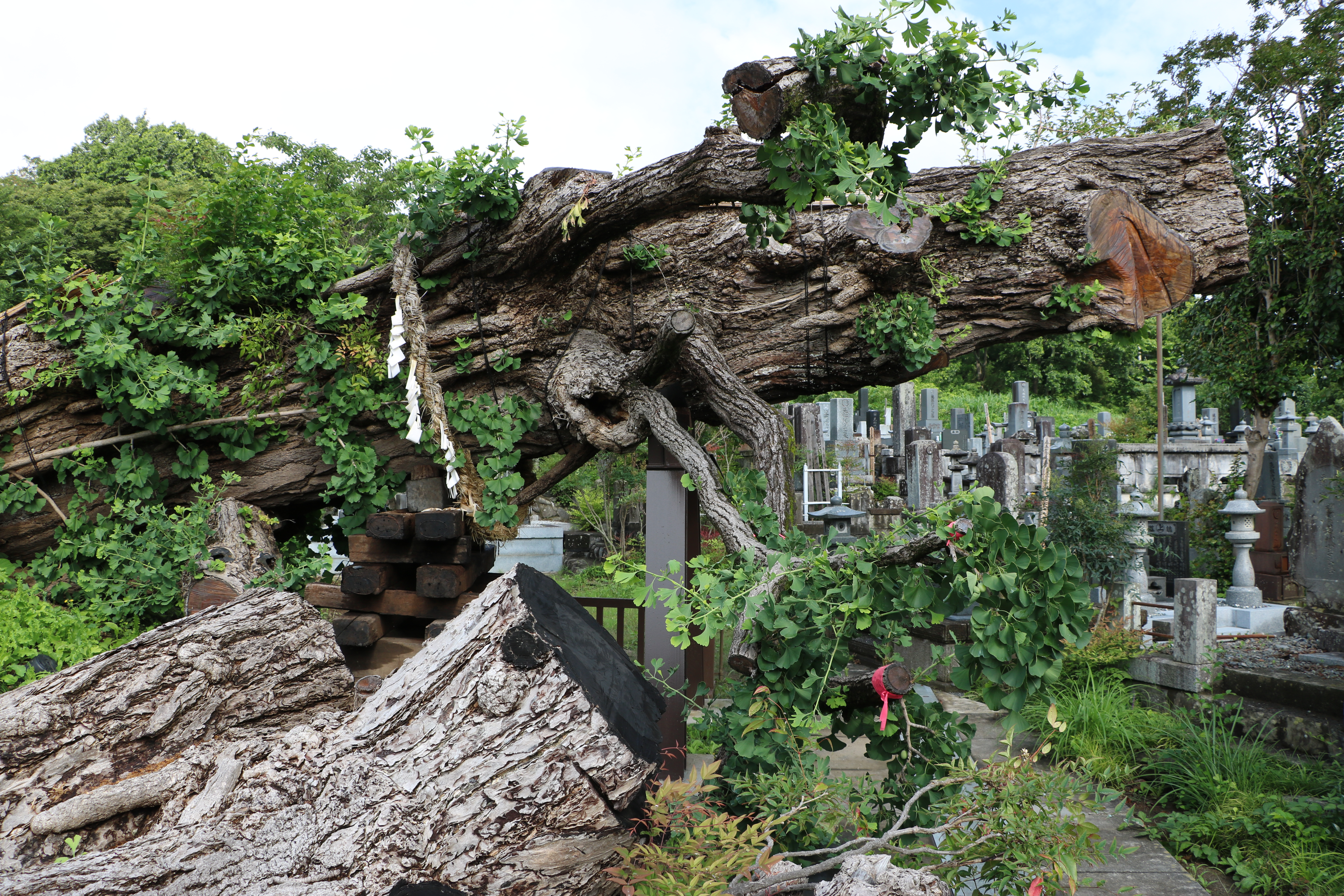 Jotakuji no Ohatsuki Icho